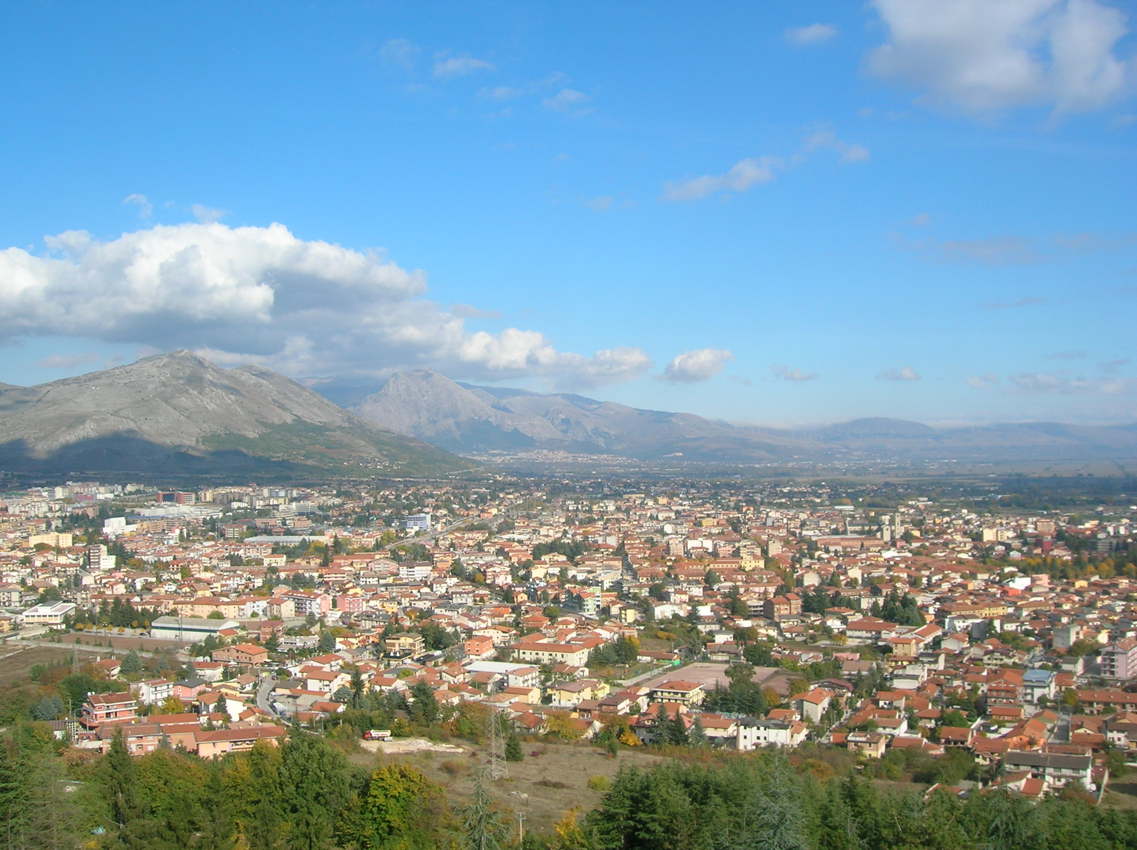 The city of Avezzano, in the Province of L'Aquila (Abruzzo, Italy) as seen from Mount Salviano (looking to left)